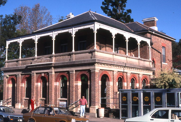 former, post office, richmond, australia